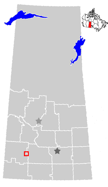 Location of Swift Current, Saskatchewan